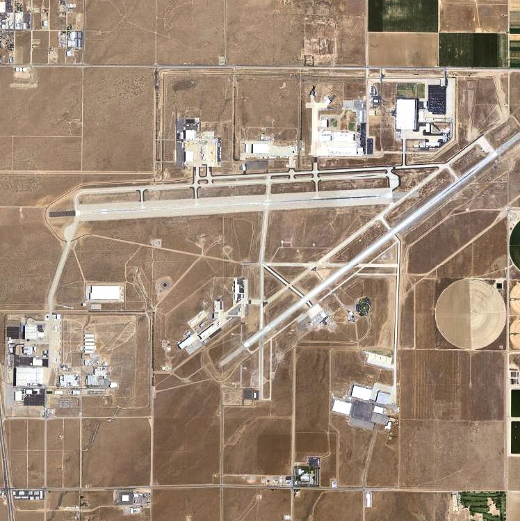 USGS digital orthophoto of Palmdale Regional Airport in the Antelope Valley, of the western Mojave Desert, Southern California.